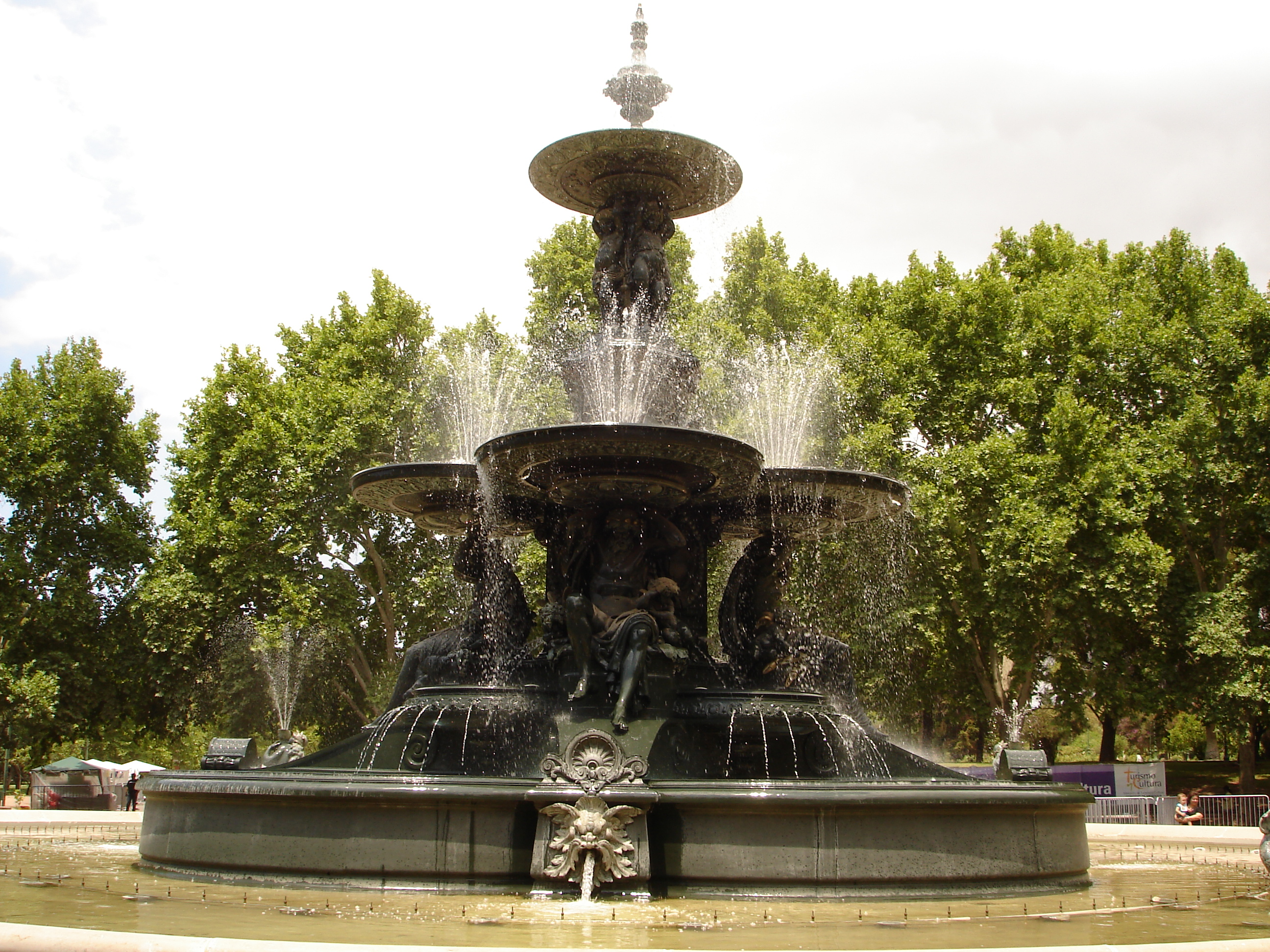 The Fuente de los continentes, placed in the Parque General San Martín, Mendoza, Argentina